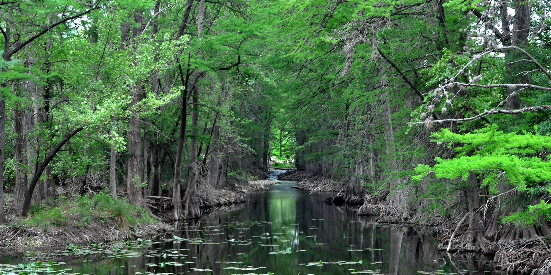 Bald cypress (Taxodium distichum) on the Guadalupe River at Highway 1340, Kerr County, Texas, USA Photographed on 14 April 2012 by William L. Farr